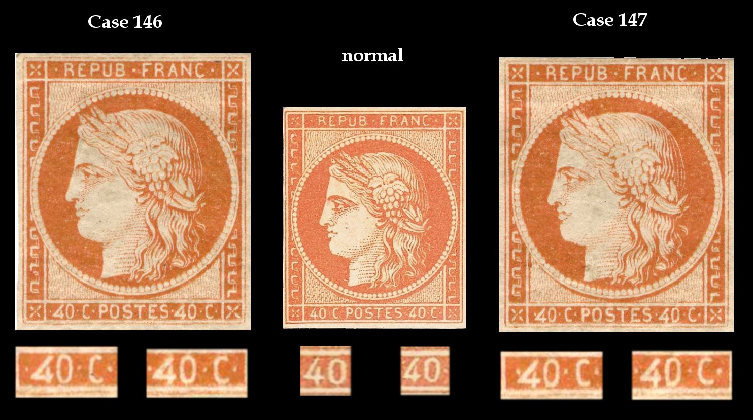 French stamps / 1850 / Ceres / first stamps from France 40 centimes Céres 1849-1850 / error 20 change in 40